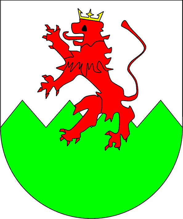 coat of arms counts of Löwenstein